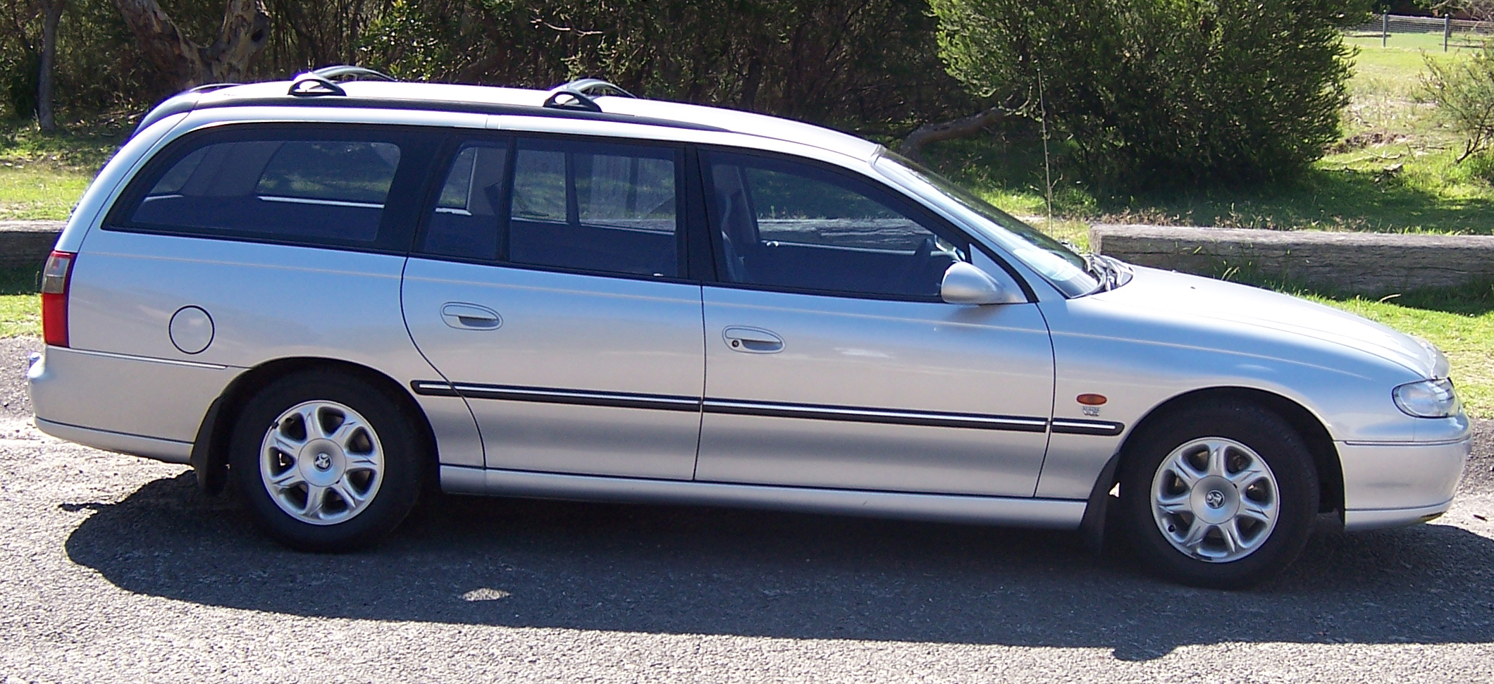 1997–1999 Holden VT Berlina station wagon. Photographed in New South Wales, Australia.